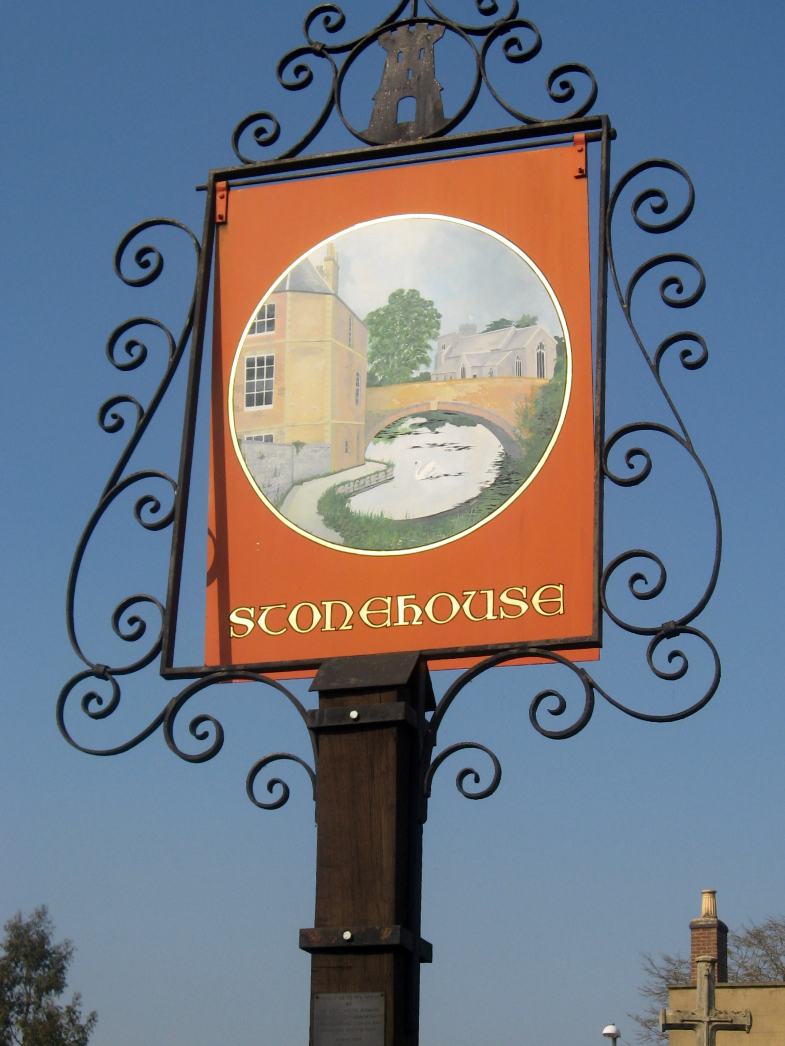 Stonehouse, Gloucestershire, town sign.